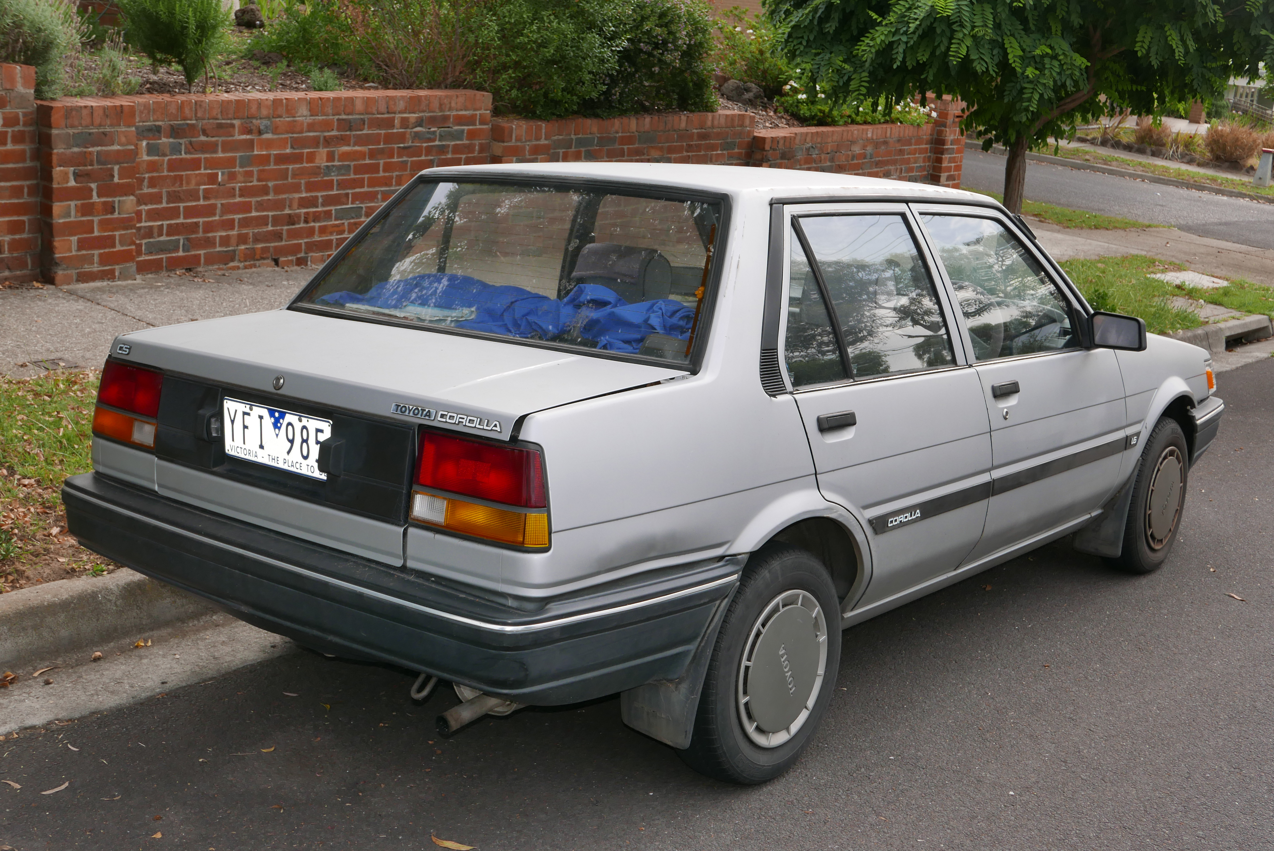 1987 Toyota Corolla (AE82) CS sedan. Photographed in Brunswick West, Victoria, Australia. Vehicle registration enquiry results Jurisdiction Victoria Registration YFI985 Chassis code AE829761314 Engine code 4A9024306 Compliance date 1987-06 Year of manufacture 1987